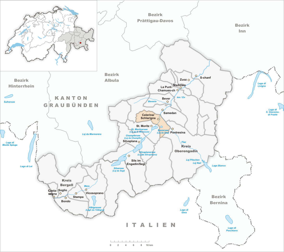 Municipality Celerina Schlarigna